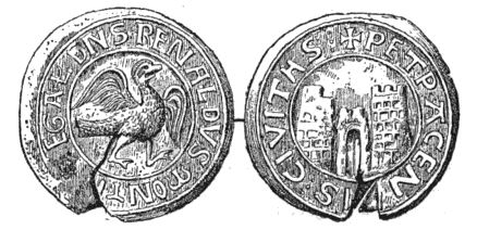 Seal of Reynald of Chatillon